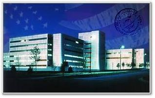 Downloaded from official government web site on 23 November 2008.